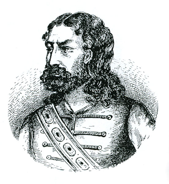 Kraljević Marko (1355 - 1395). newspaper xylograph.